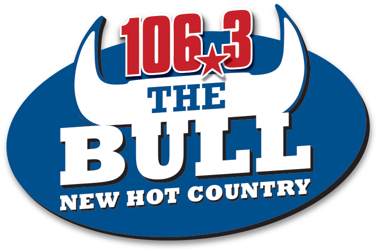 Hot Country 106.3 The Bull FM plays all of your favorite new country hits!